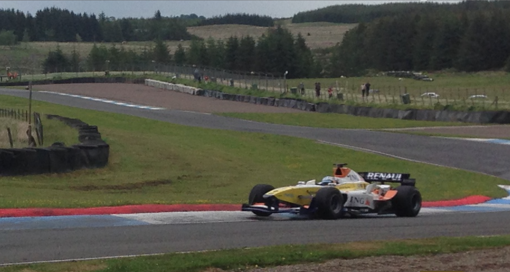 A Renault Formula 1 car at Knockhill Circuit in June 2017